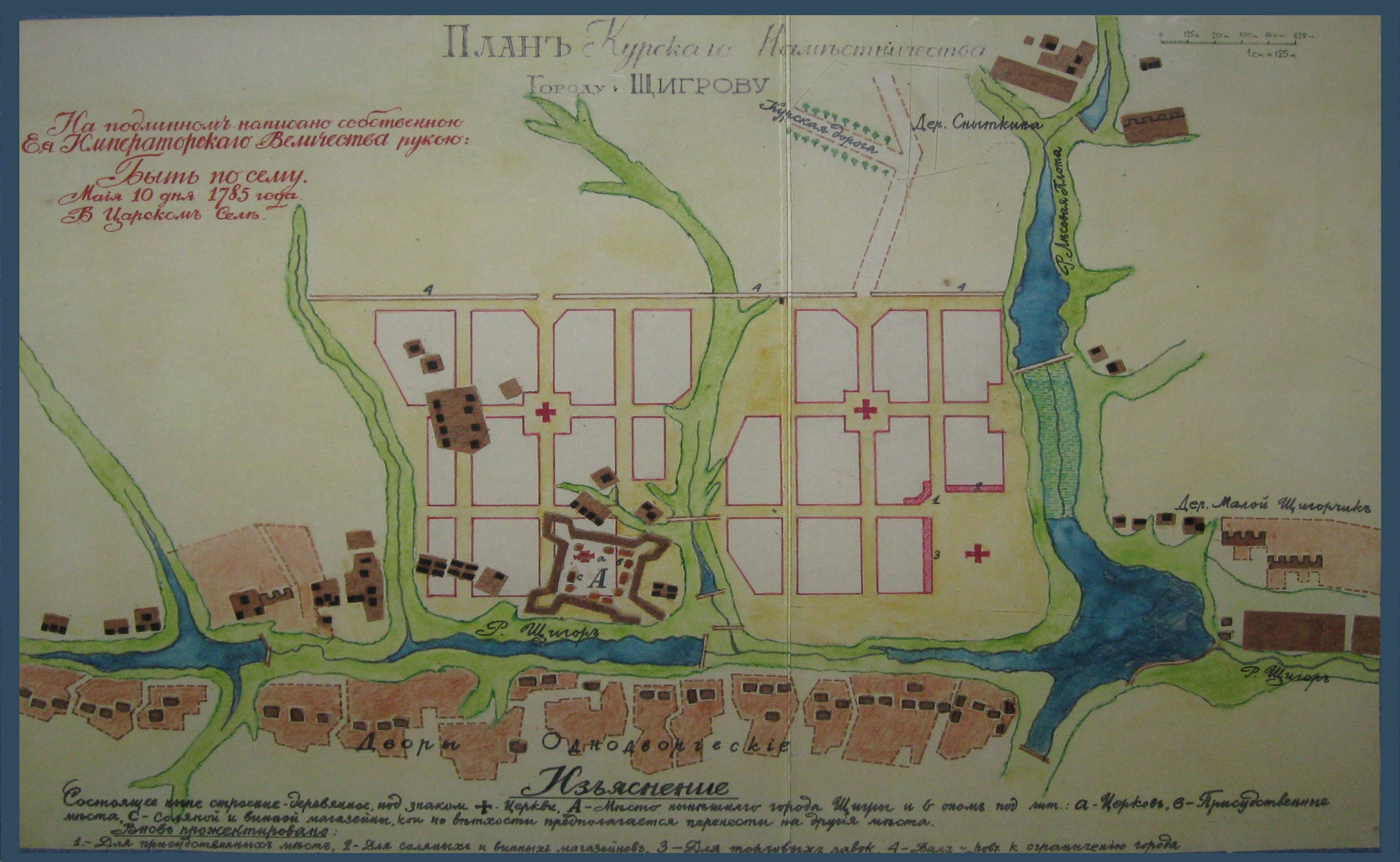 Shchigry development map (1785).